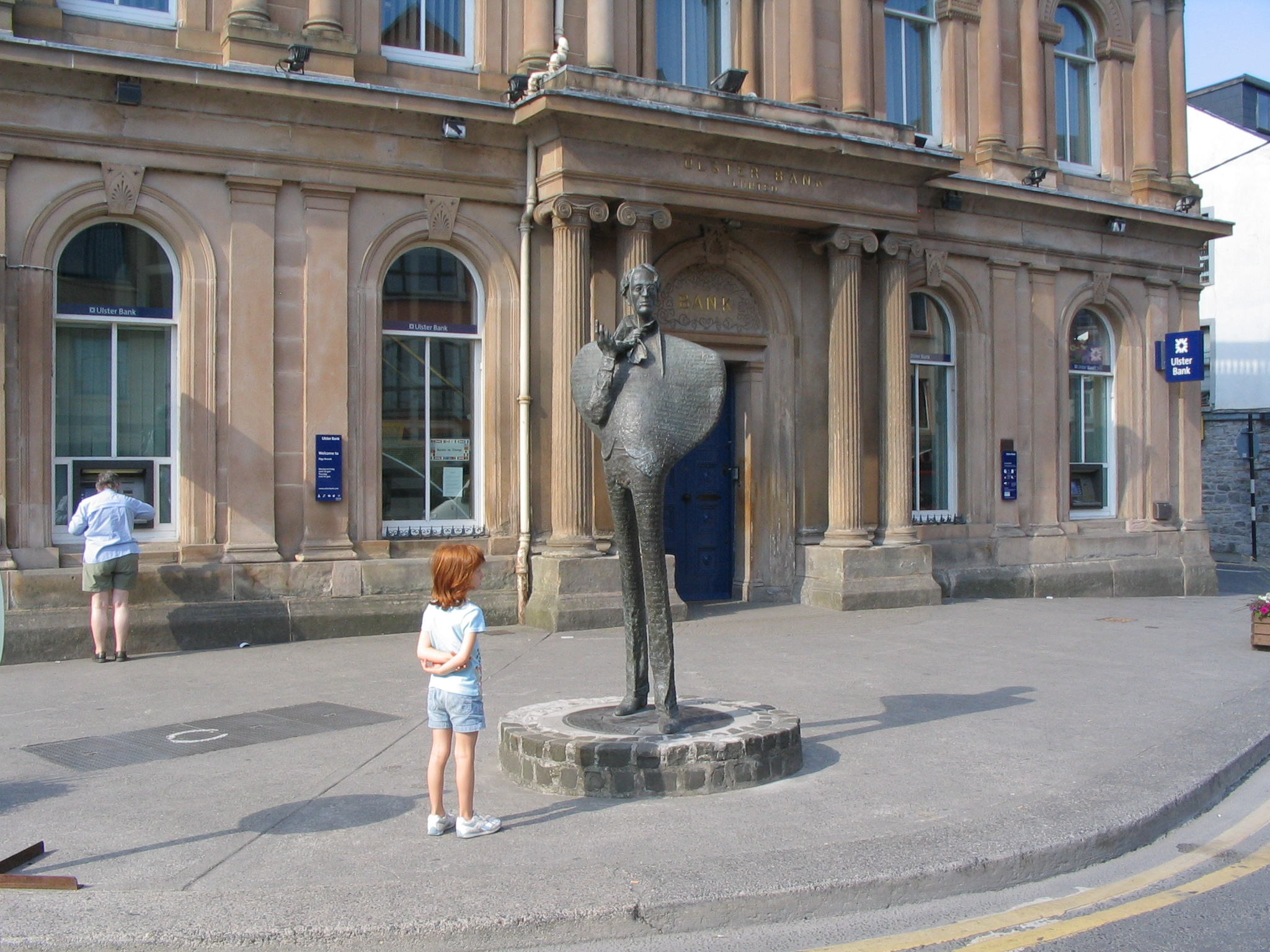 Sligo yeats Statue in front of Ulster bamk.